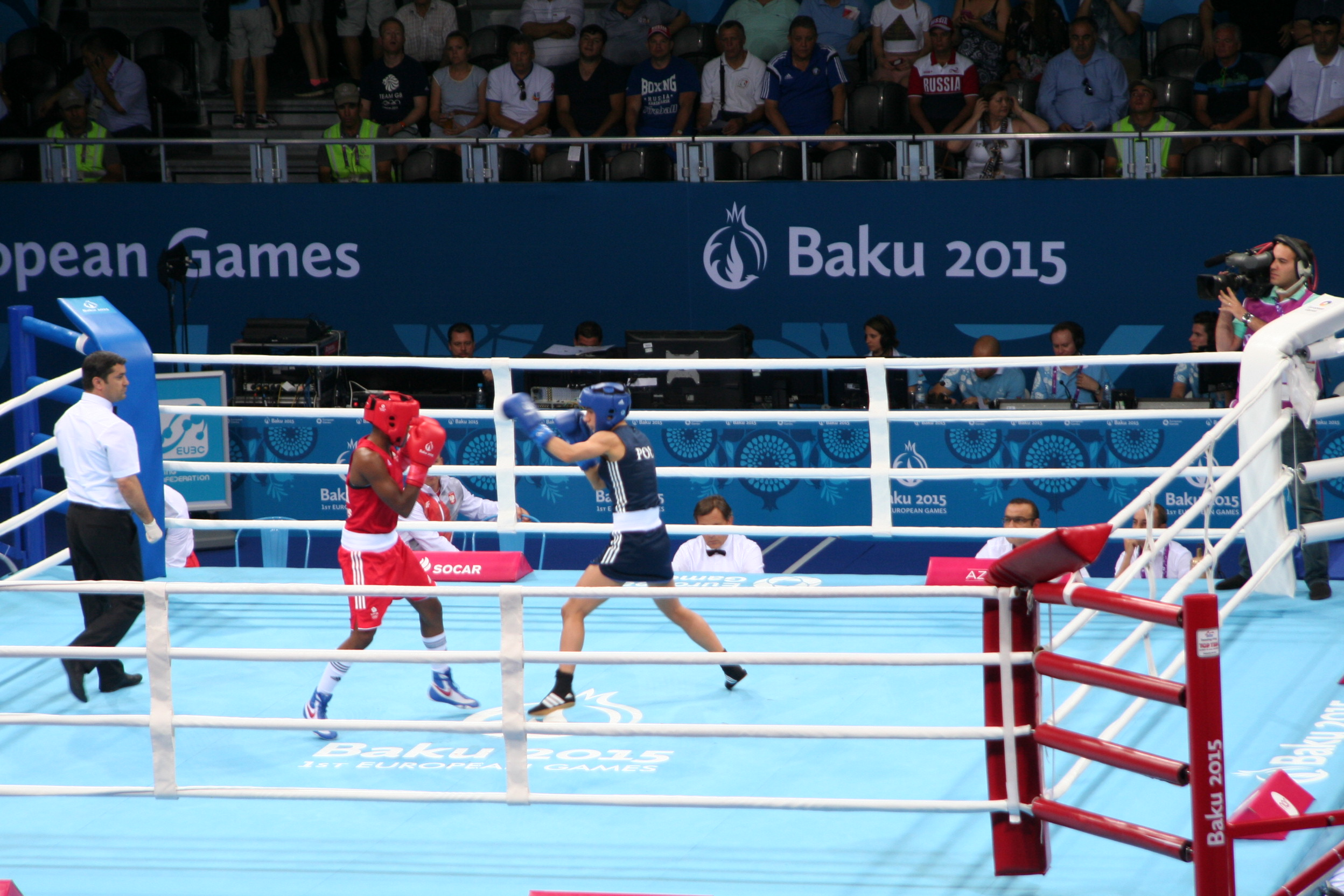 Nicola Adams vs Sandra Drabik - 2015 European Games - Final